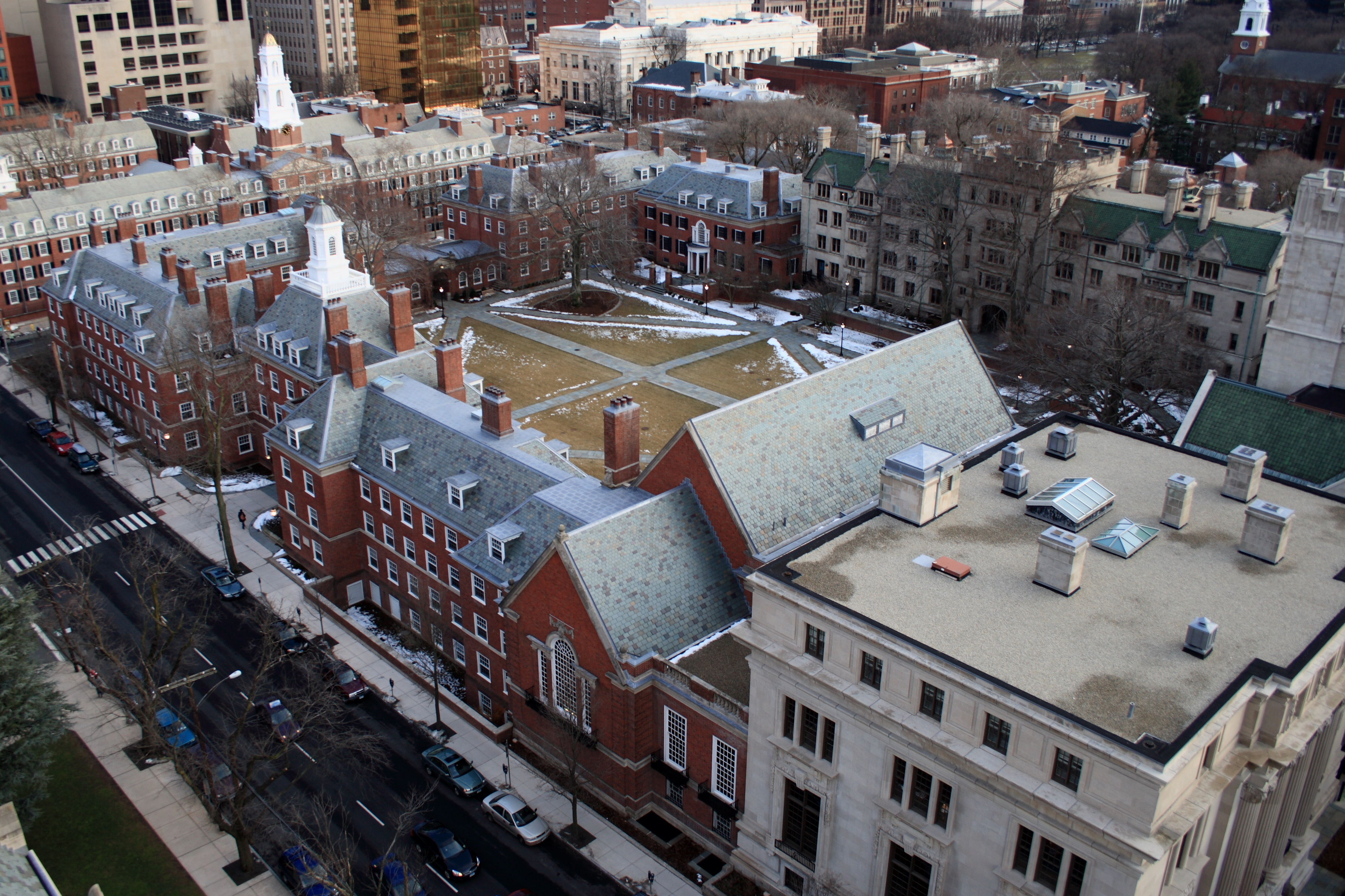 Yale's Silliman College, viewed from the roof of Sheffield-Sterling-Strathcona Hall